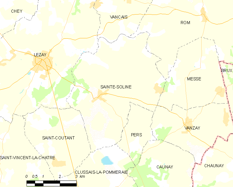 Map of French municipality Sainte-Soline